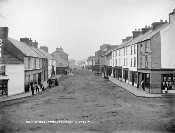 Main Street in Milltown Malbay. Note the extra wide street to accommodate the market.